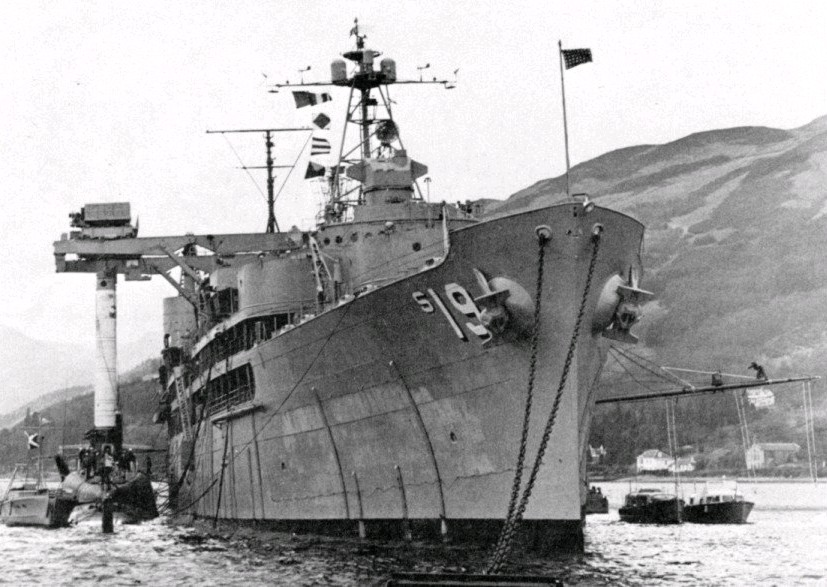 An UGM-27 Polaris ballistic missile is transferred between the U.S. Navy submarine tender USS Proteus (AS-19) and the ballistic missile submarine USS Patrick Henry (SSBN-599) at Holy Loch, Dunoon, Scotland (UK), 11 March 1961.